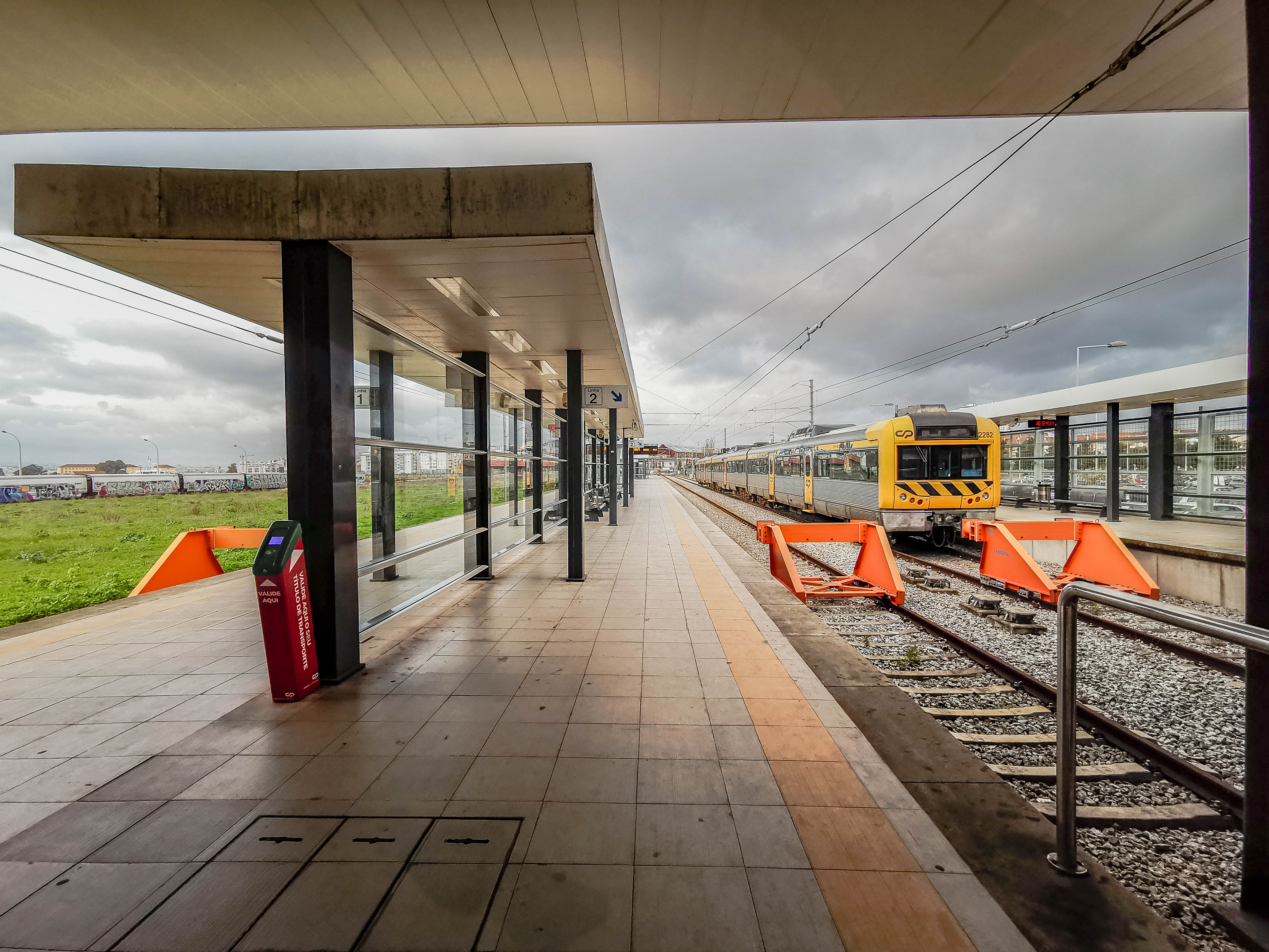 Platform no 2 of Barreiro train station, Portugal